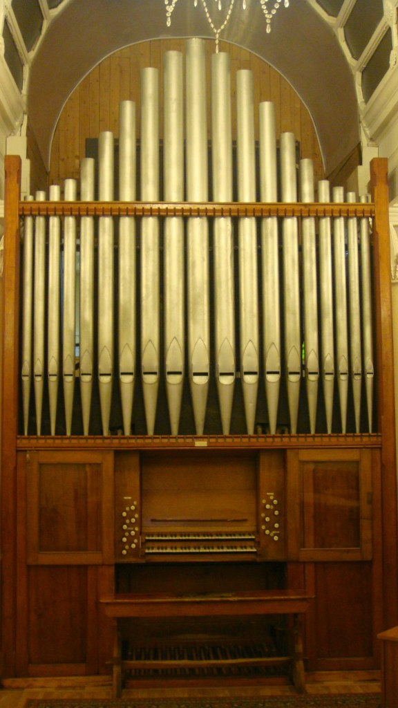 Pipe organ in Russian Academy of Music Henry Jones, 10/II/P, 1871